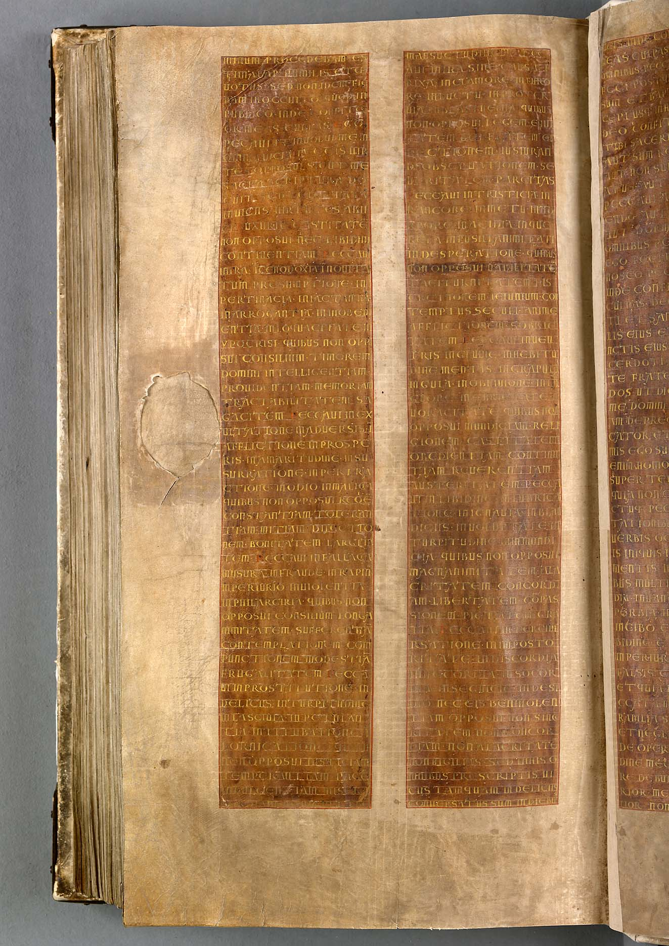 Folio 286v of the Codex Gigas